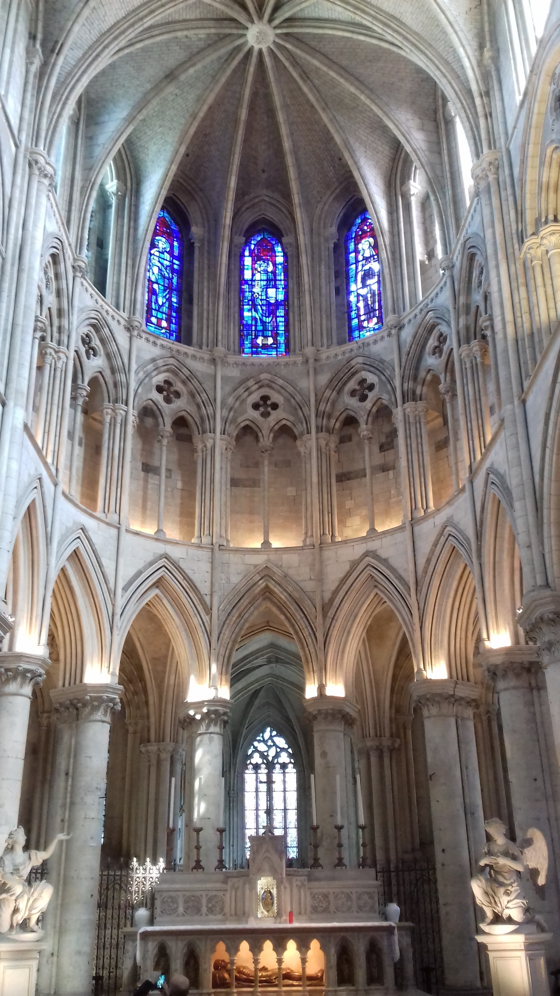 Lisieux, St. Peter's Cathedral, XII-XV Century